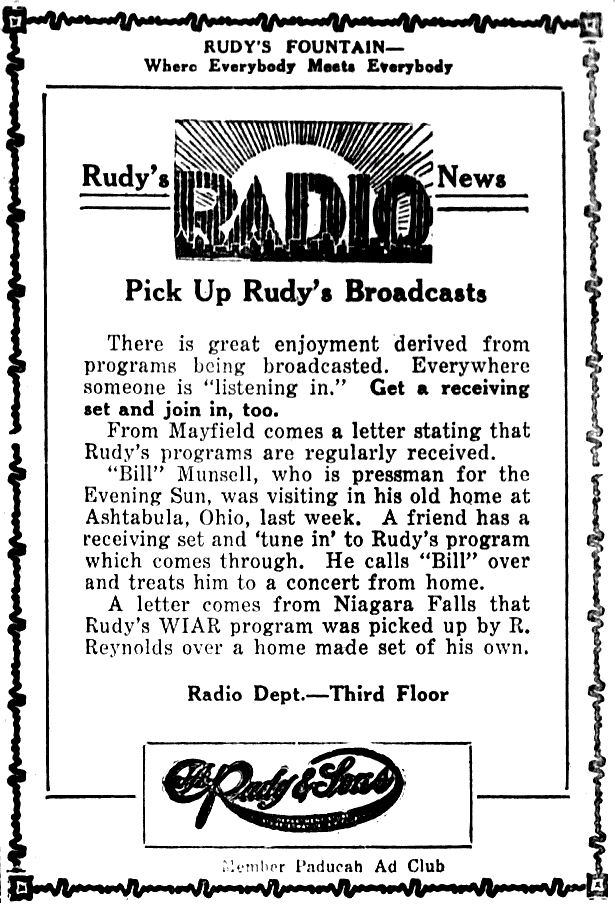 In July 1922 Rudy's department store in Paducah, Kentucky received a license to operate radio station WIAR. A few months later this station was transferred to the Paducah Evening Sun newspaper. The station ceased making regular broadcasts in May 1923 and was deleted in March 1924.